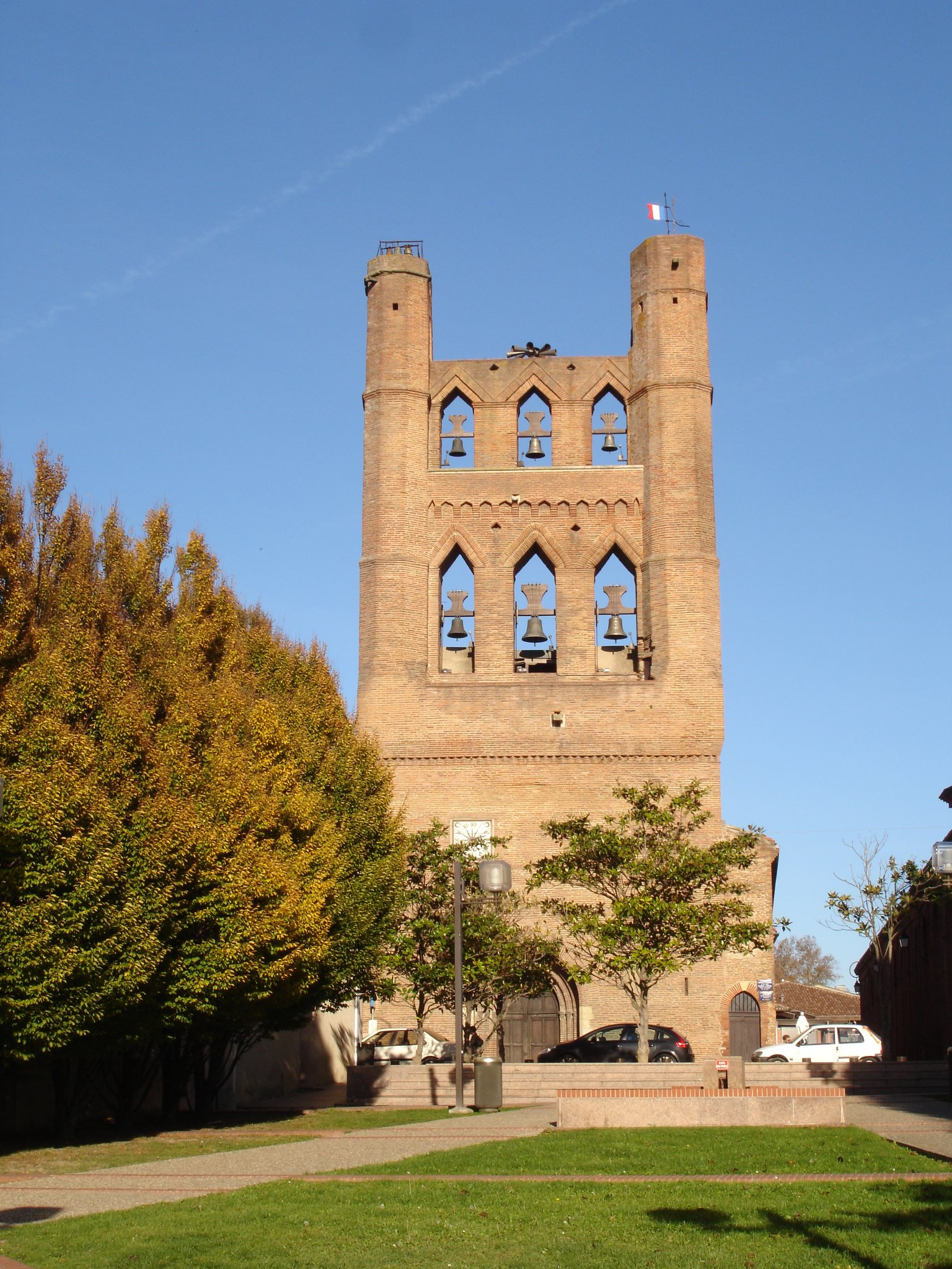 France, Haute-Garonne (31), Villefranche-de-Lauragais, church